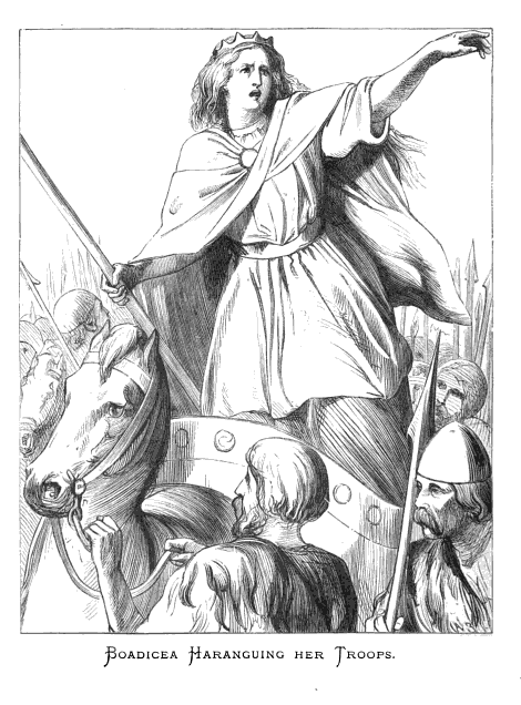 Boudicea haranguing her troops